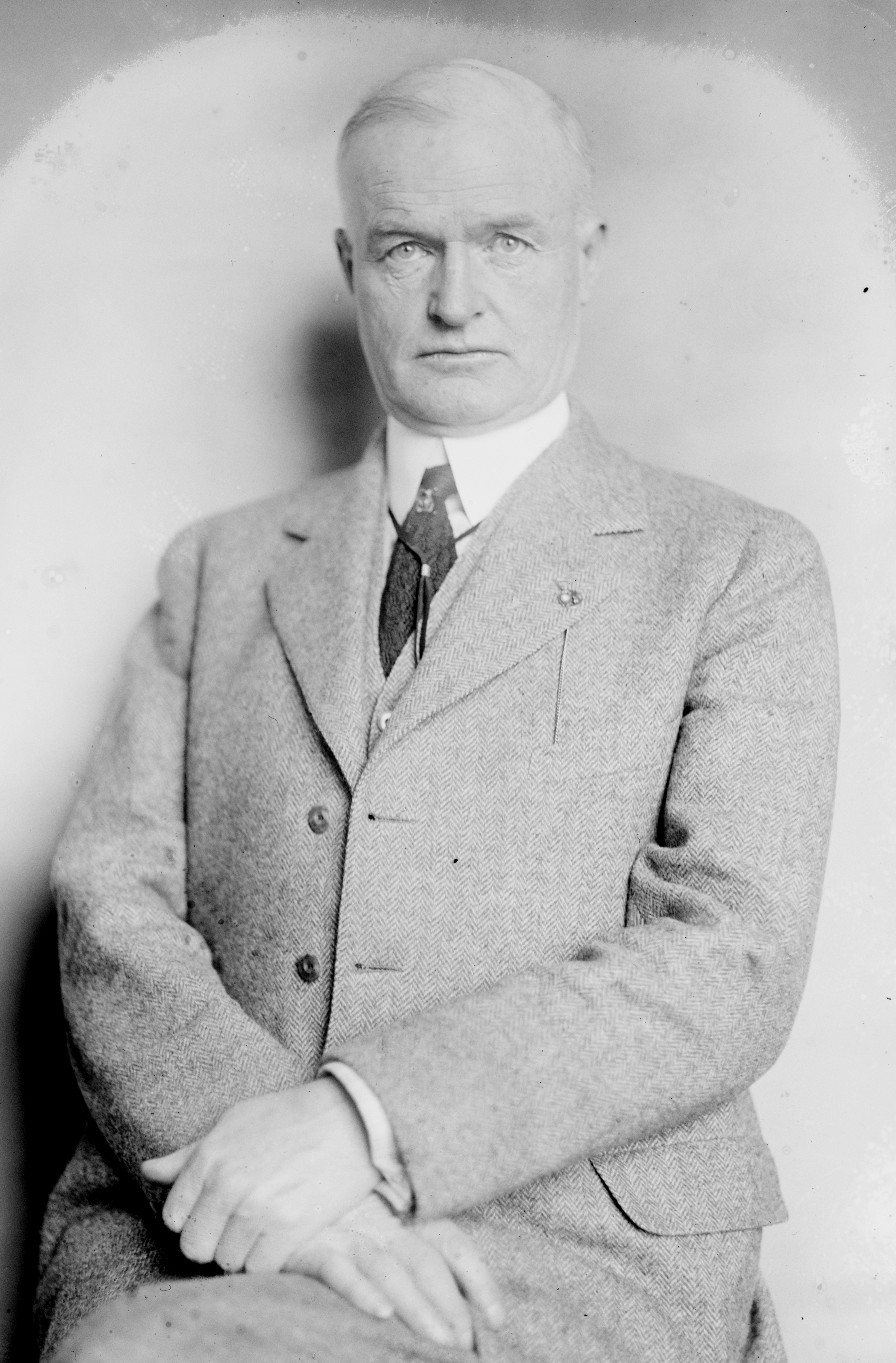 R. Clint Cole, congressman from Findlay, Ohio. glass negative, 5 by 7 inches or smaller.